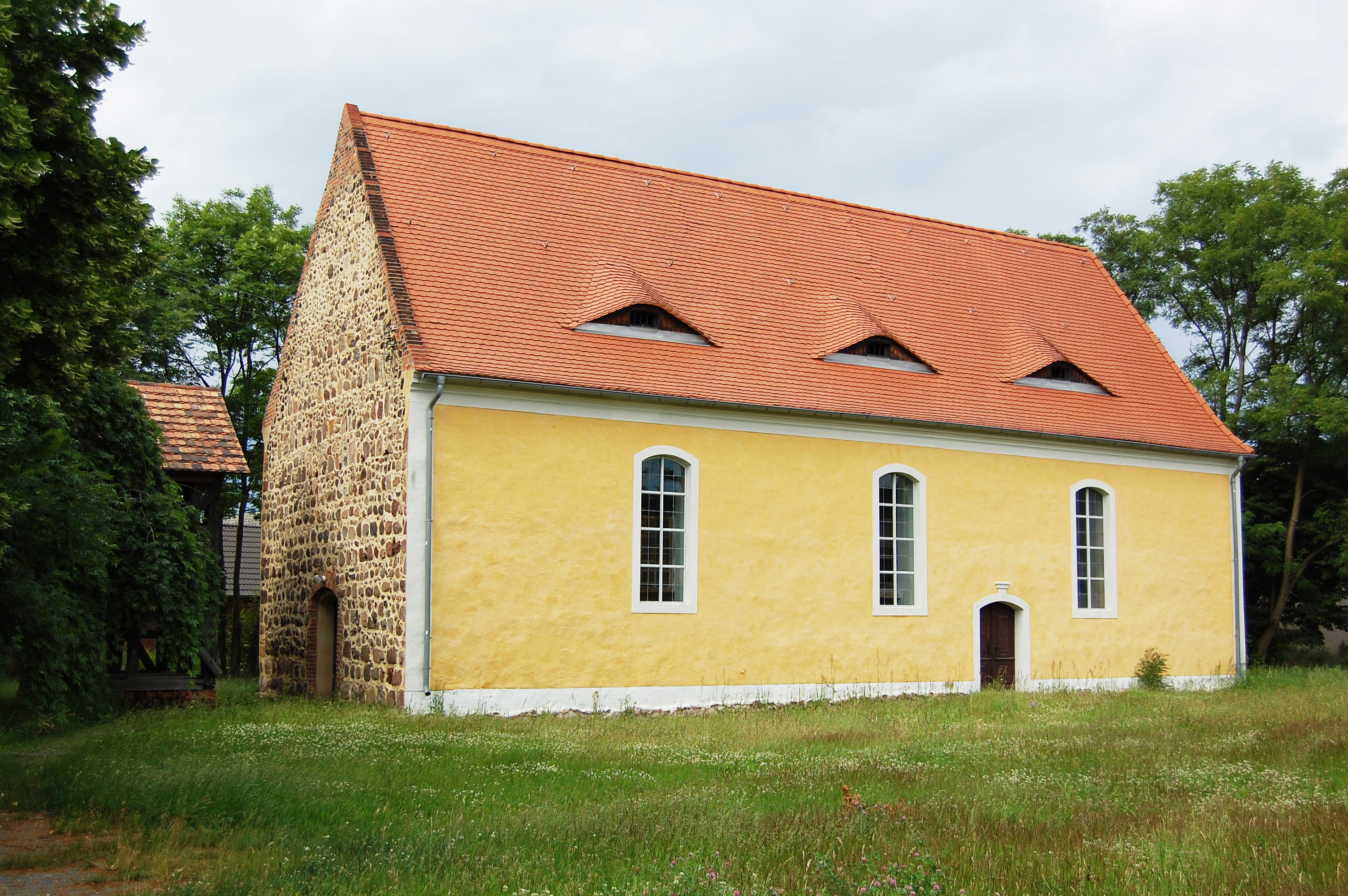 Church in Sassleben, Stadt Calau, Brandenburg, Germany